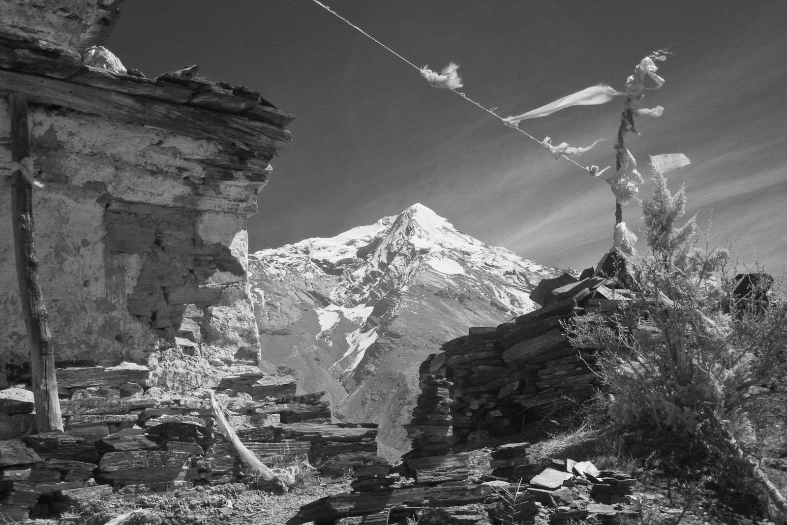 Chorten & Pisang Peak - High route trail between Ghyaru & Ngawal